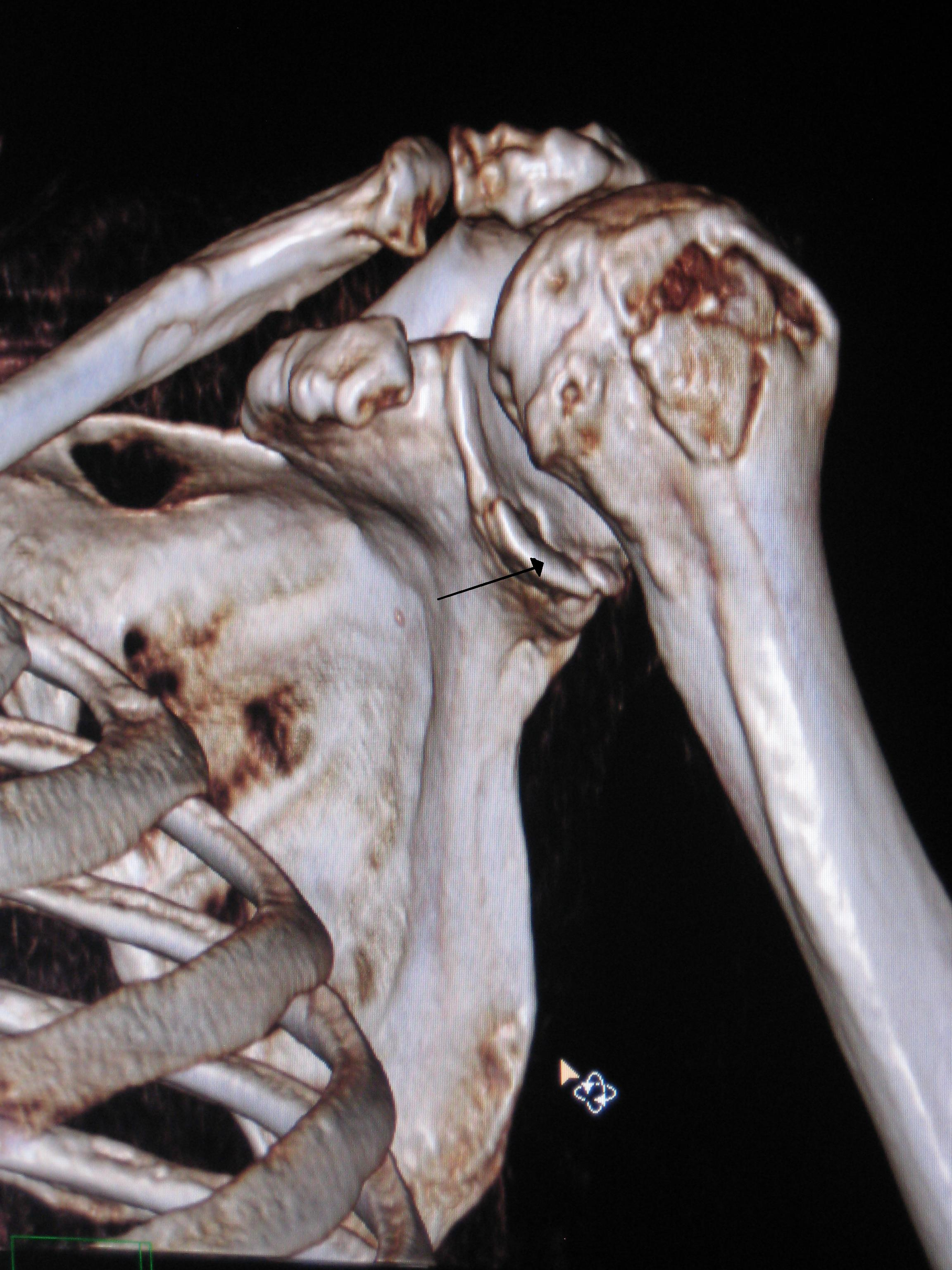 3-D CT reconstruction of a Bankart lesion which occurred post anterior shoulder dislocation. Person's humerus remains mildly superiorly subluxed.